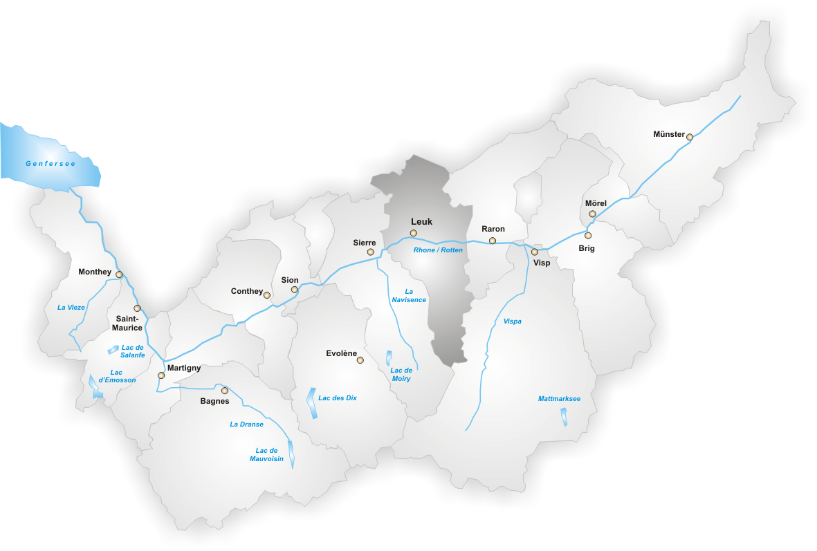 District Leuk